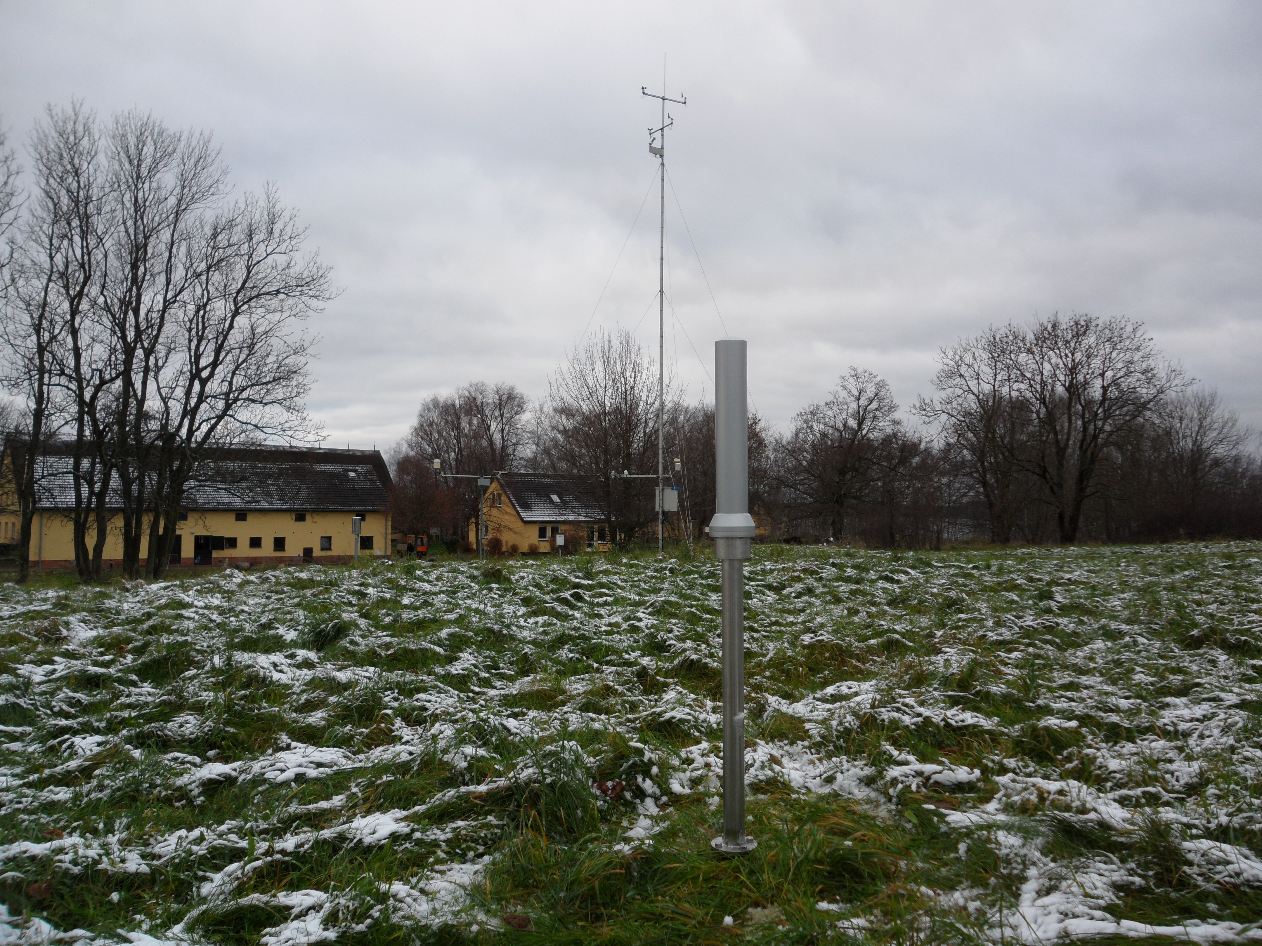 Gamma-dose-rate probe of the German network, new version